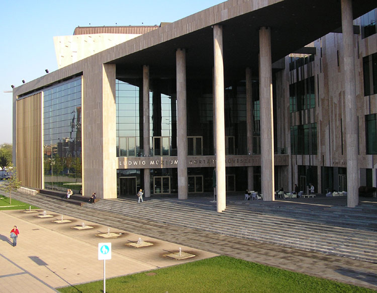 The Palace of Arts, Budapest